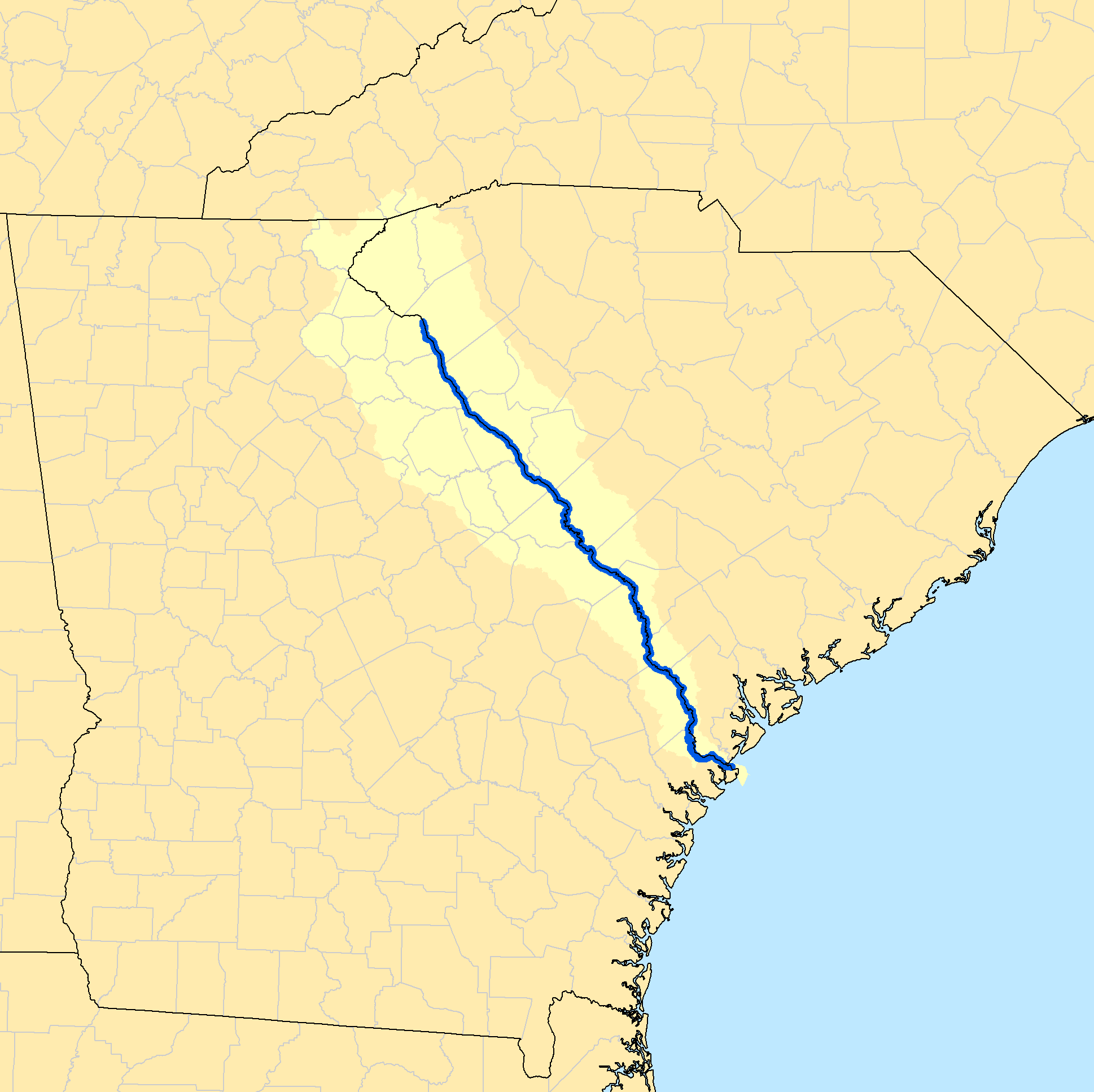 This is a map of the Savannah river watershed. I, Karl Musser, created it based on USGS data.